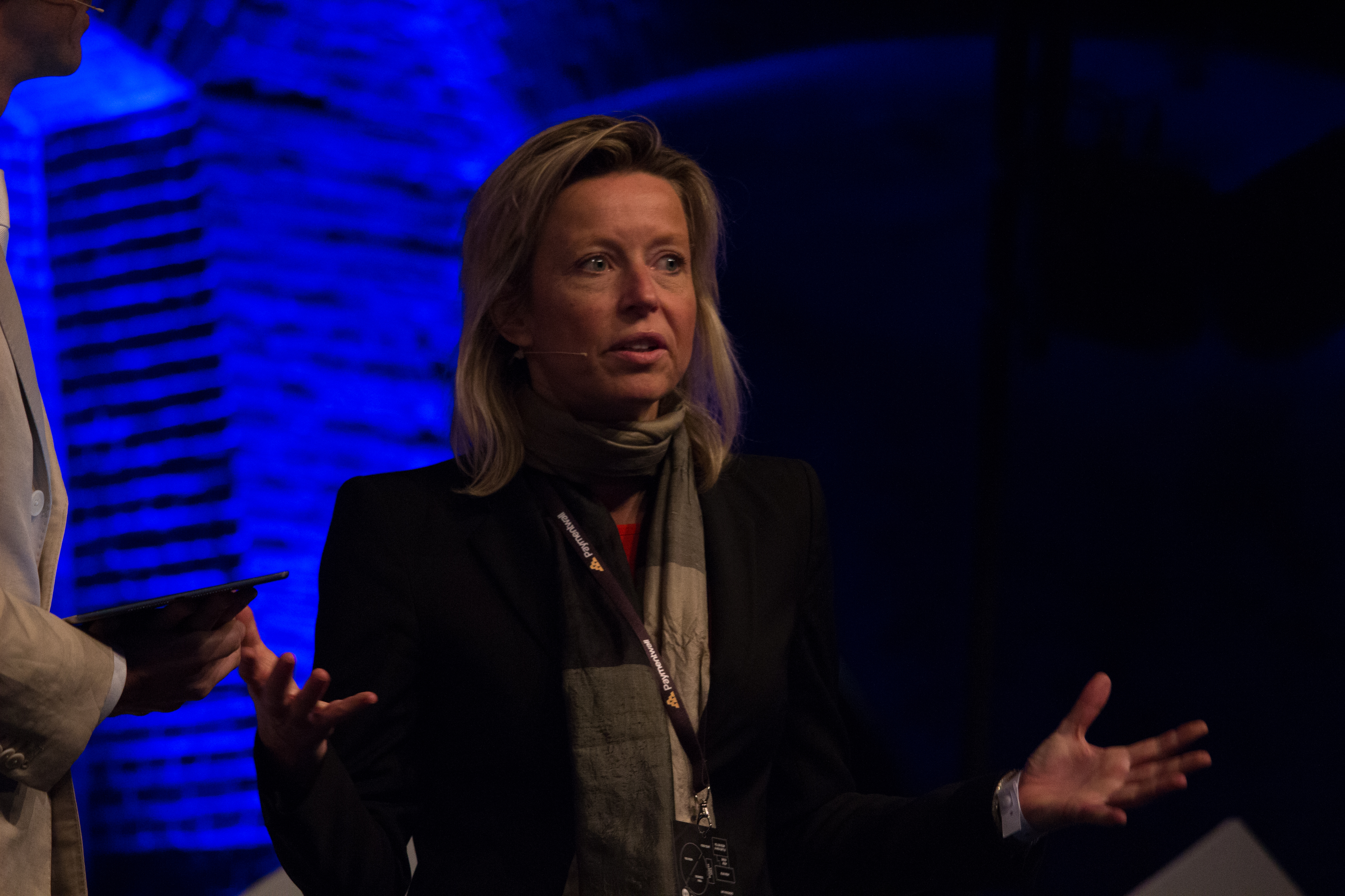 Kajsa Ollongren at The Next Web conference